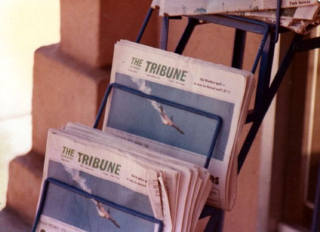 Tragic PSA Crash Flight 182 Sept 25, 1978